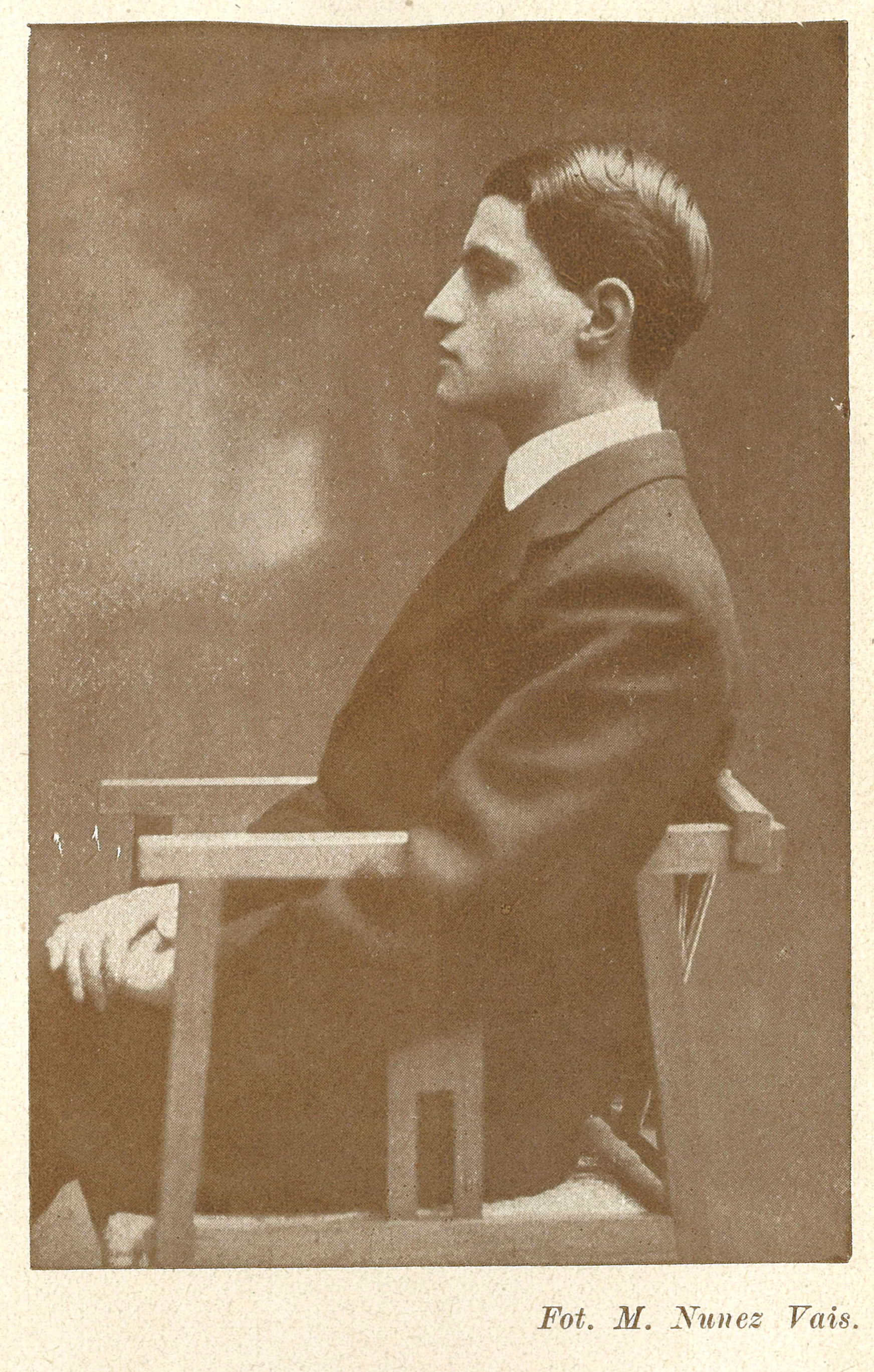 Taken from the book Colloqui by Giosuè Borsi (1916)